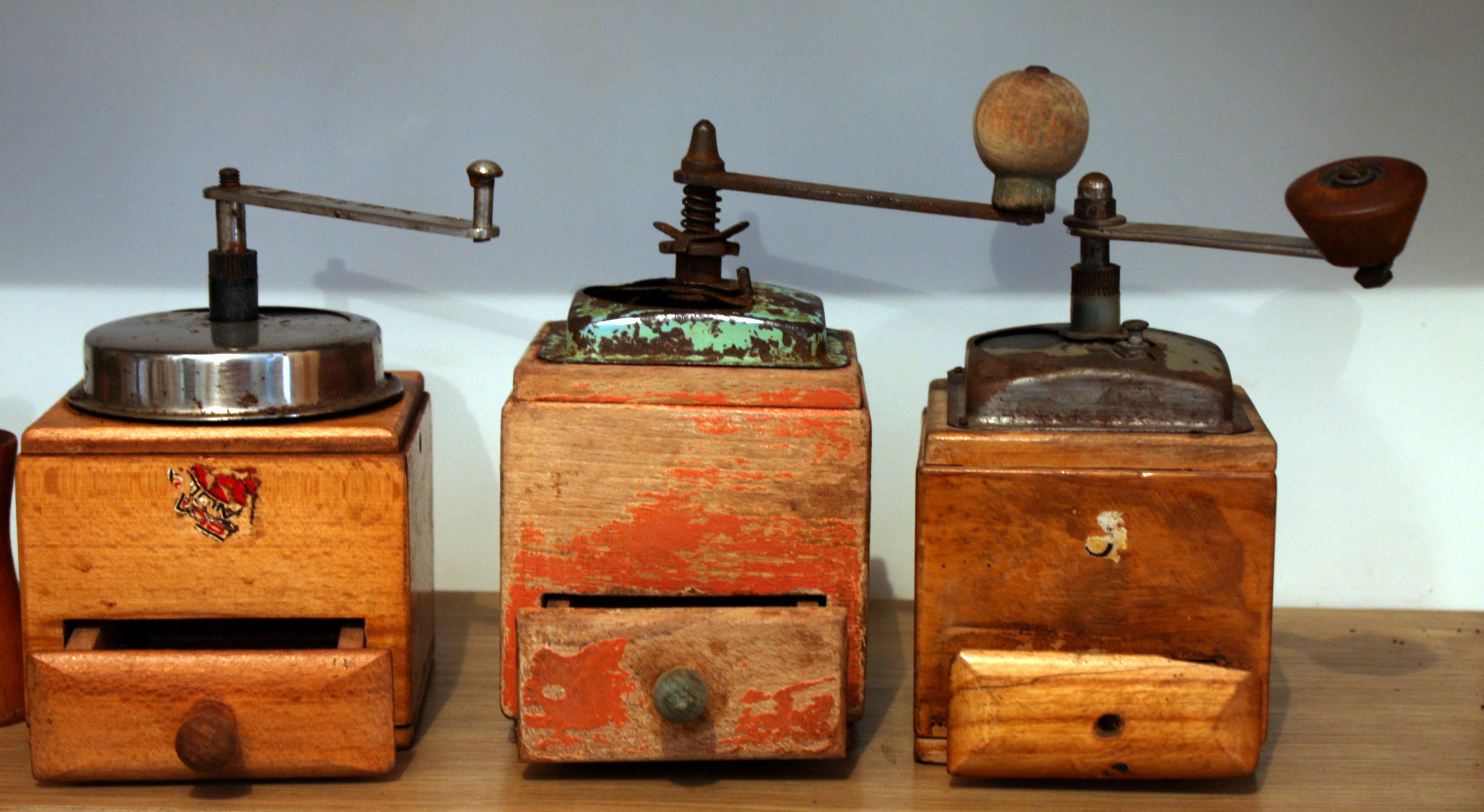 Three Coffee grinders